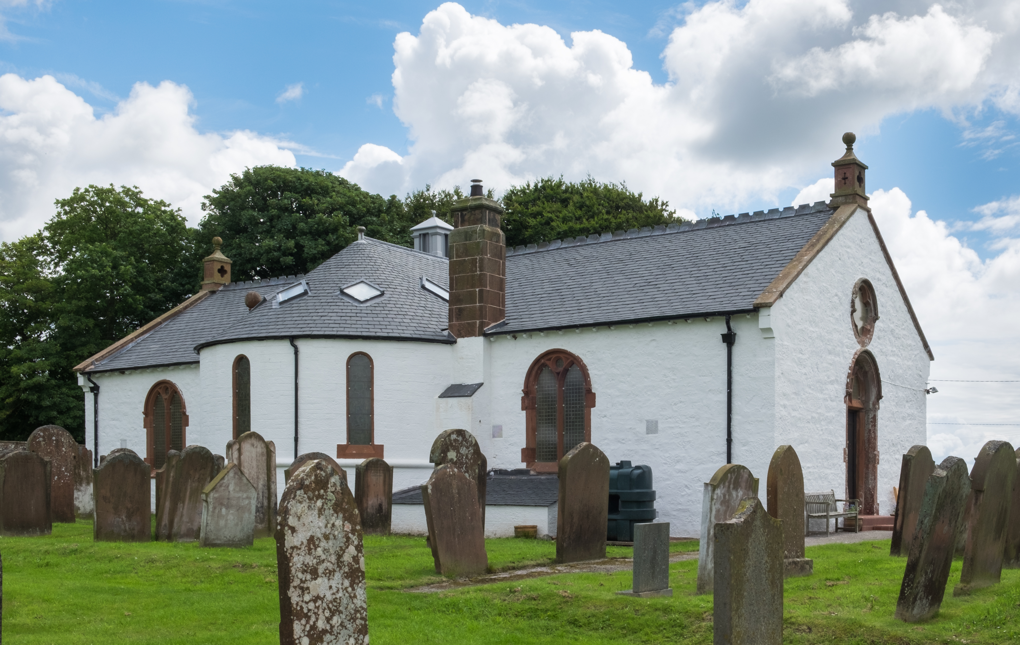 Ruthwell Parish Church, Ruthwell, Scotland. This church houses the 8th-century Ruthwell Cross and is a category B listed building in Scotland.